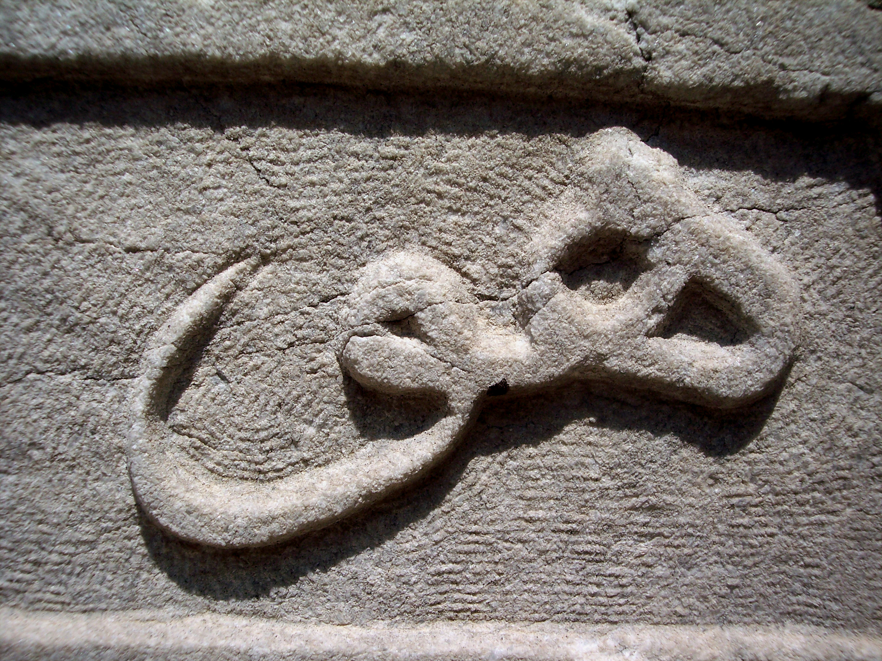 "Hu". Hu is a word used to denote God in a mystical way in Sufism. This inscription that reads hu is found on an old gravestone from Ottoman era.